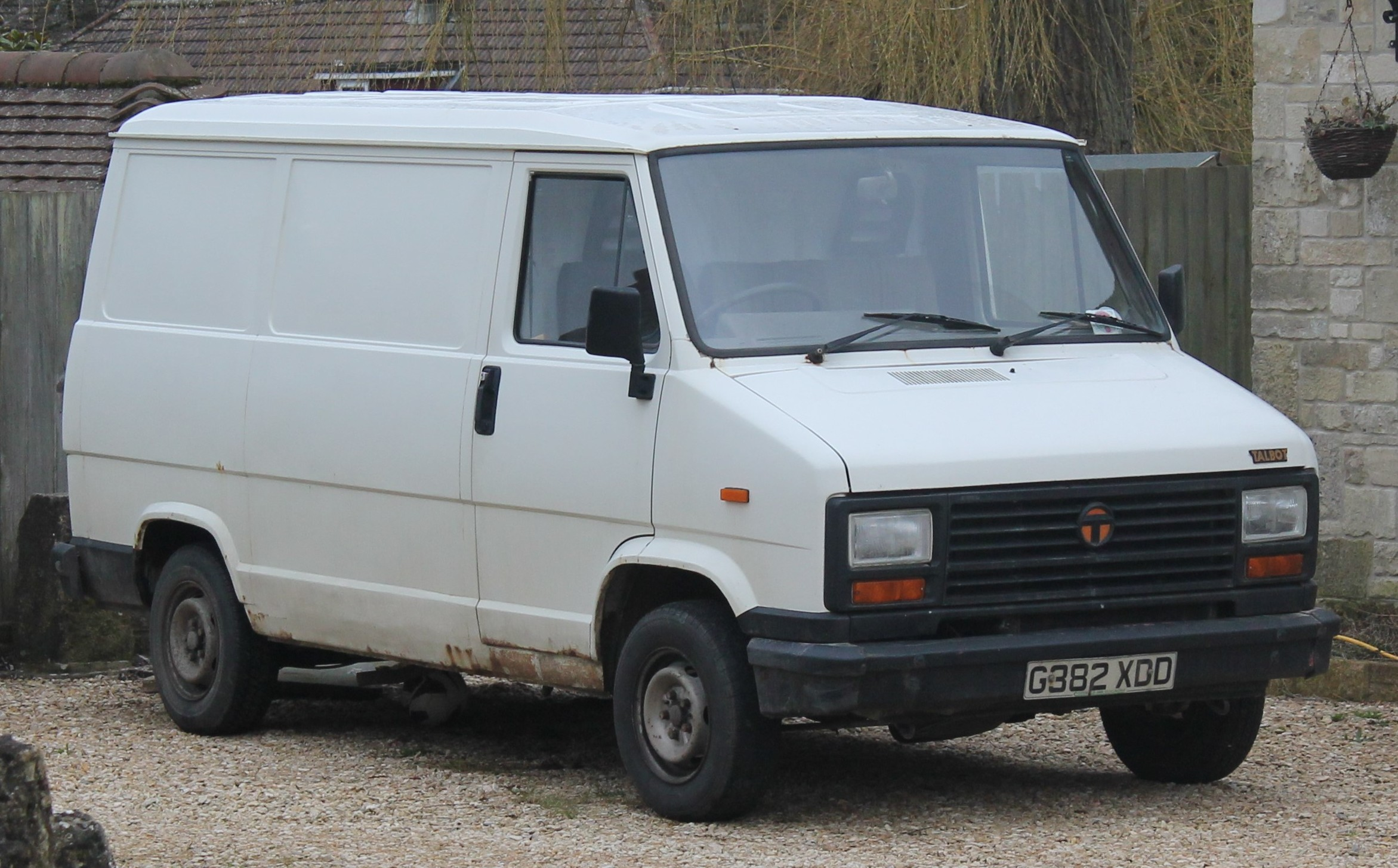 Surely not a lot of van versions of these still going. Great looking old van, and pretty old too, at 25 years old. Looks well used, and I expect has high mileage. Registration number: G382 XDD ✔ Taxed Expires: 01 November 2014 ✔ MOT Expires: 19 May 2015